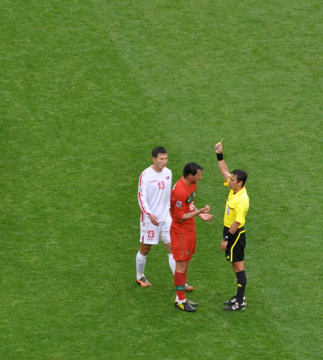 That is a yellow card